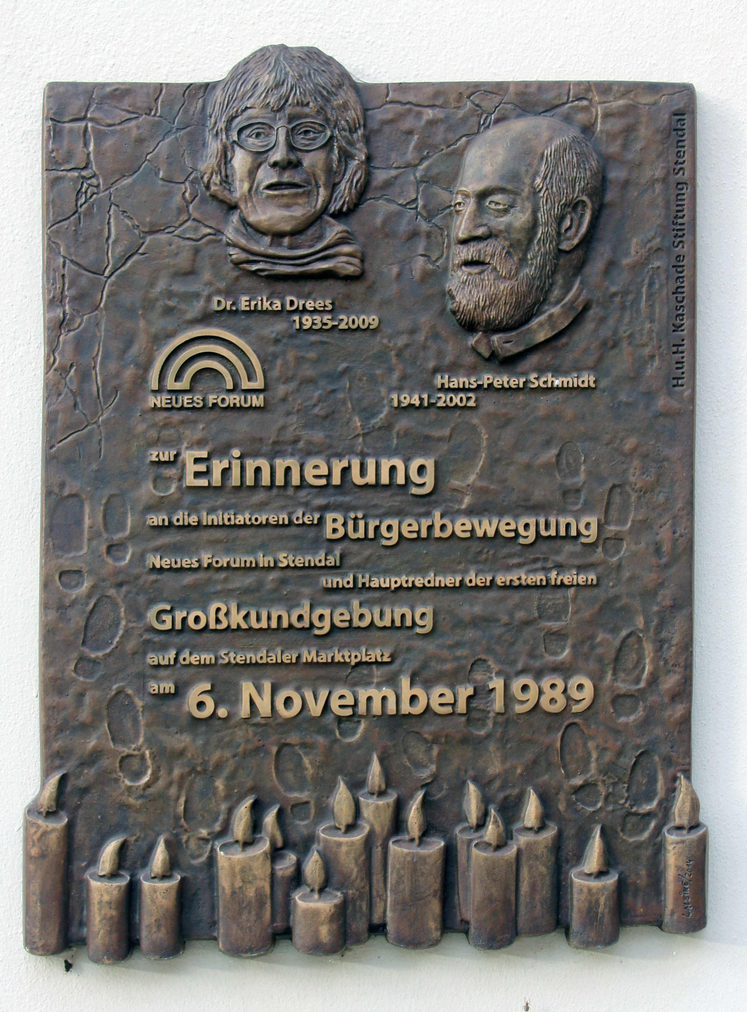 Memorial plaque, Erika Drees and Hans-Peter Schmidt, Markt 1, Stendal, Deutschland